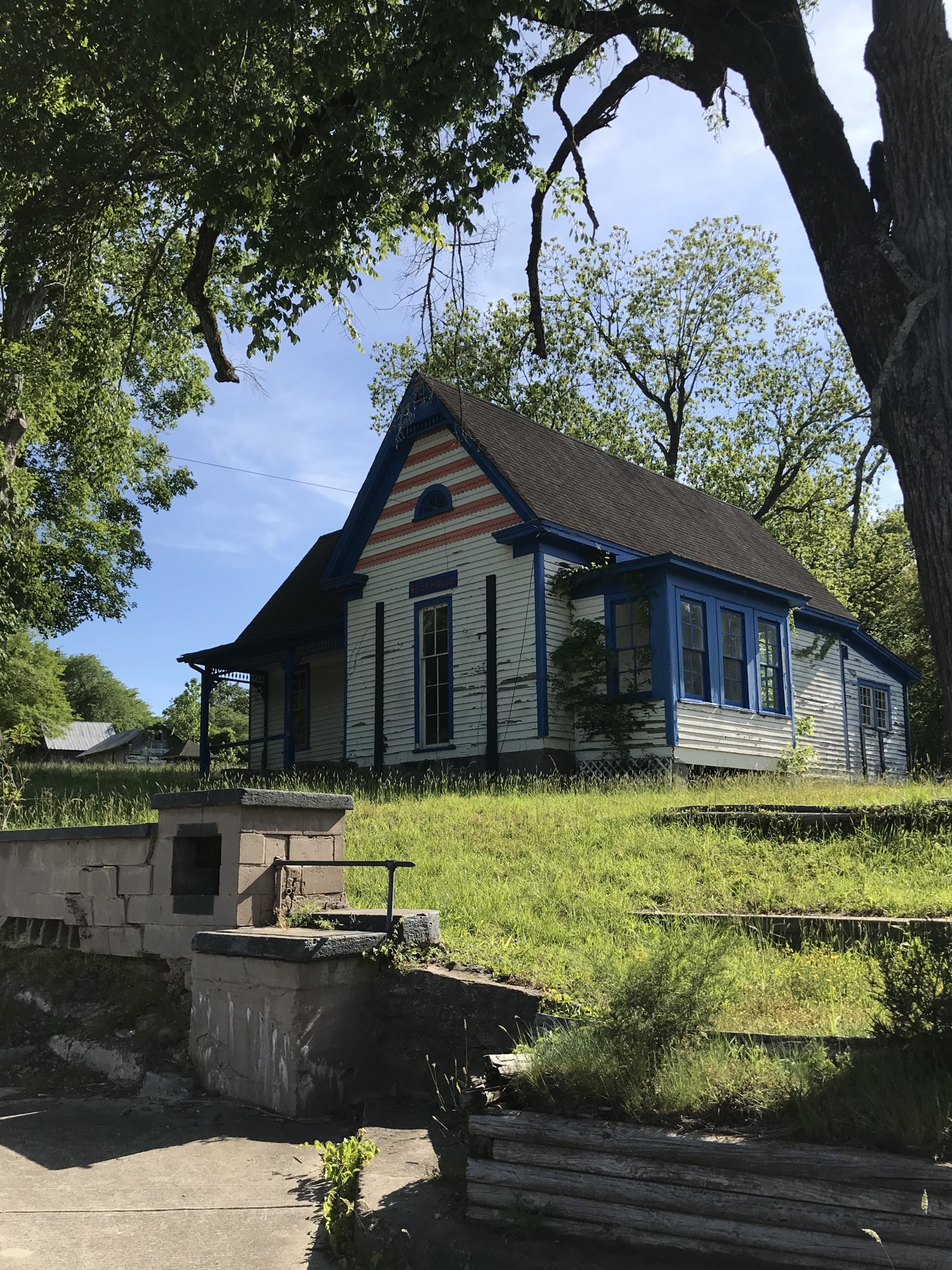 Old boathouse in Falls community, near Old Falls of Neuse Road